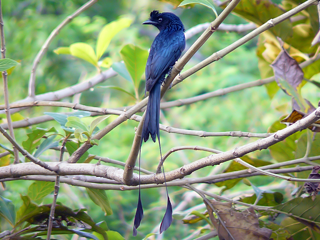 The Racket-tailed Drongo, is a great mimic and established exhibitionist who loves to attract attention to itself. I saw this fellow after hearing his loud cries. Mostly solitary and arboreal though they often descend to low bushes. In this photo you can clearly see the birds prominent crest and long wire-like tail extensions.